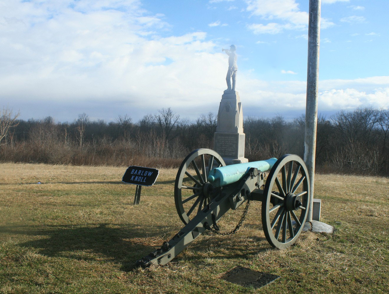 Barlow knoll, (Gettysburg) memorial union battery